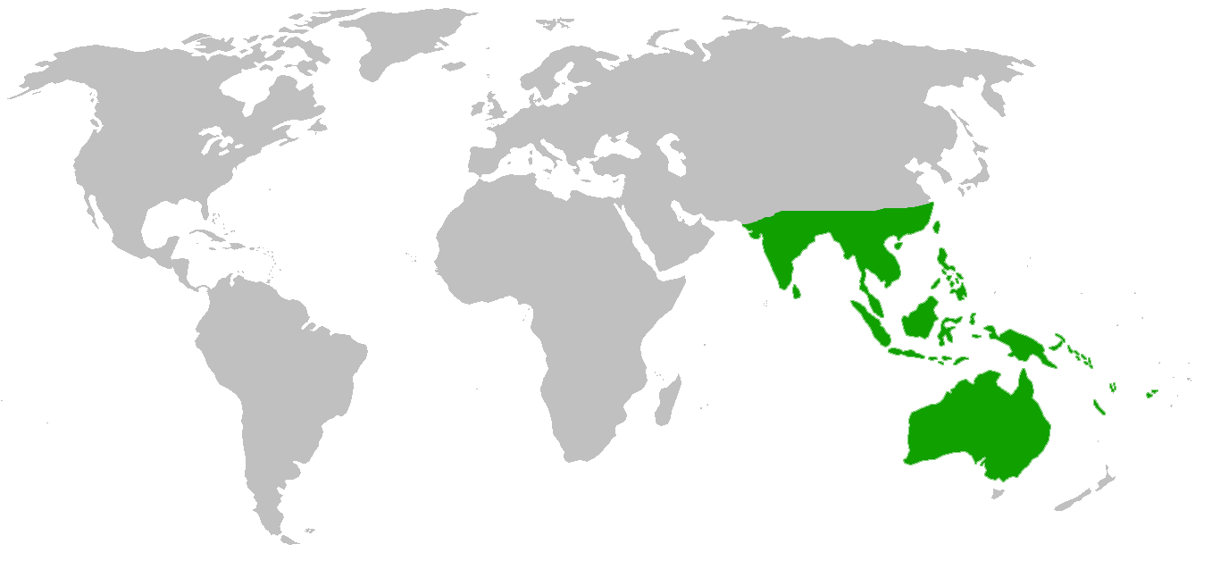 Distribution of Ornithoctoninae. Schmidt, 2003